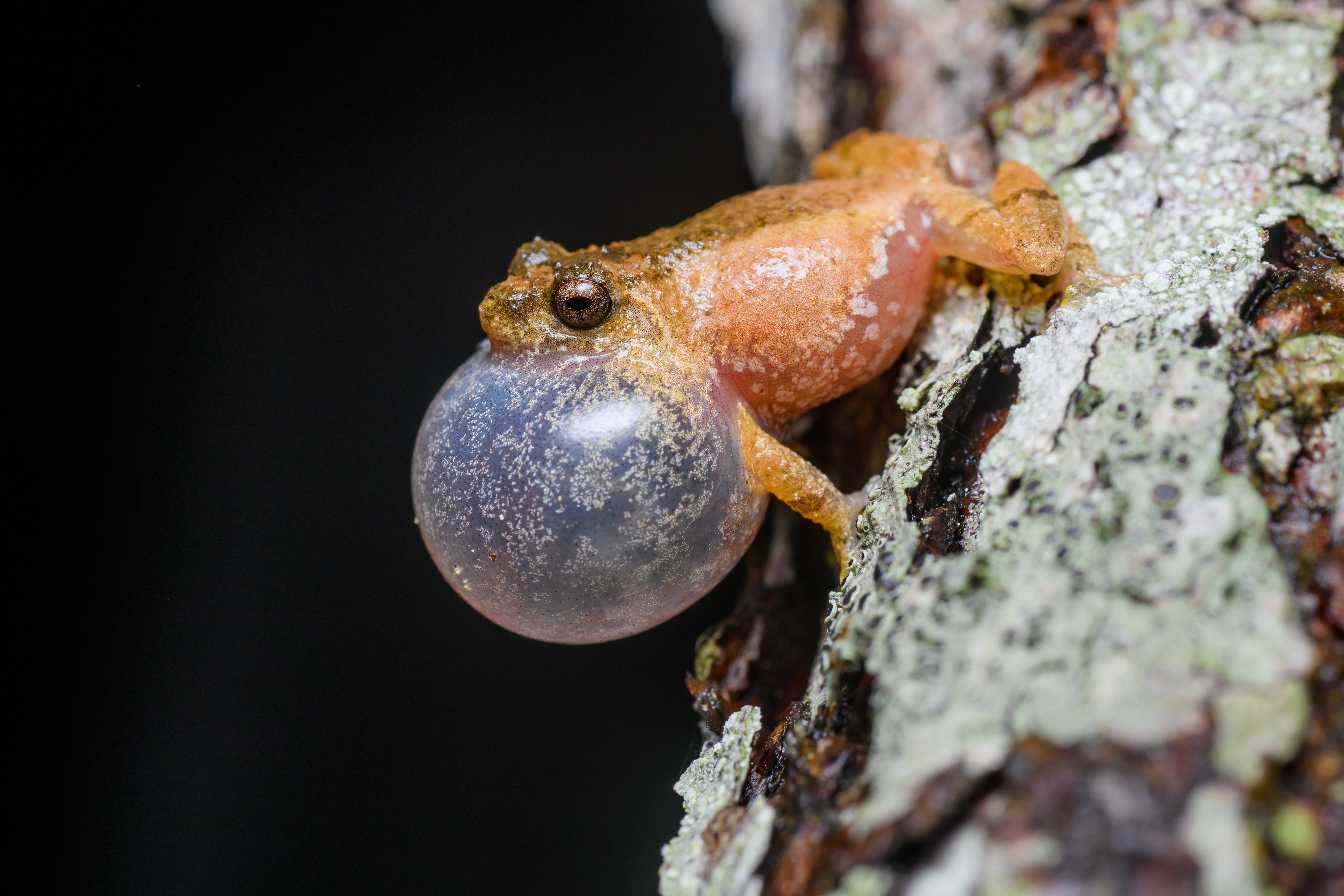 Phu Kradueng National Park